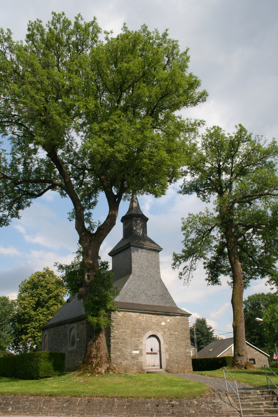 Paliseul (Belgium), the St. Rochus chapel (1636).